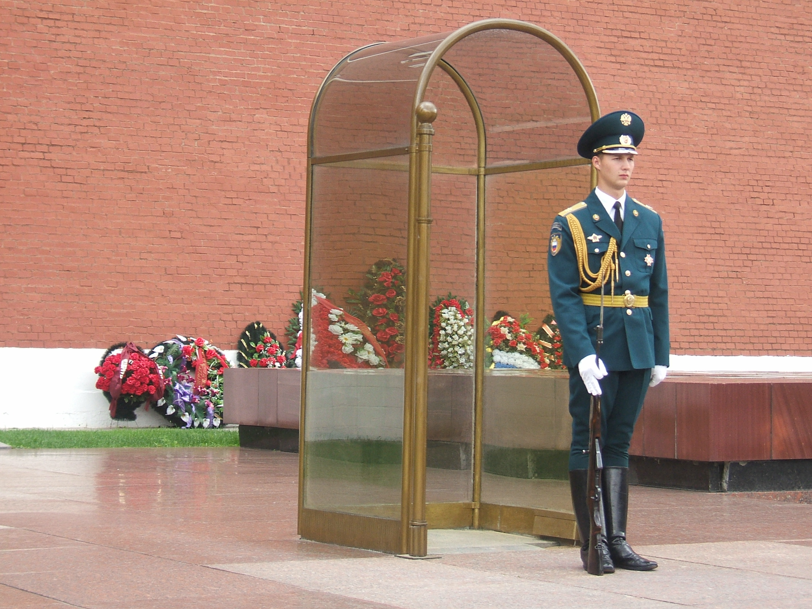 A guard at the tomb of the unknown soldier.